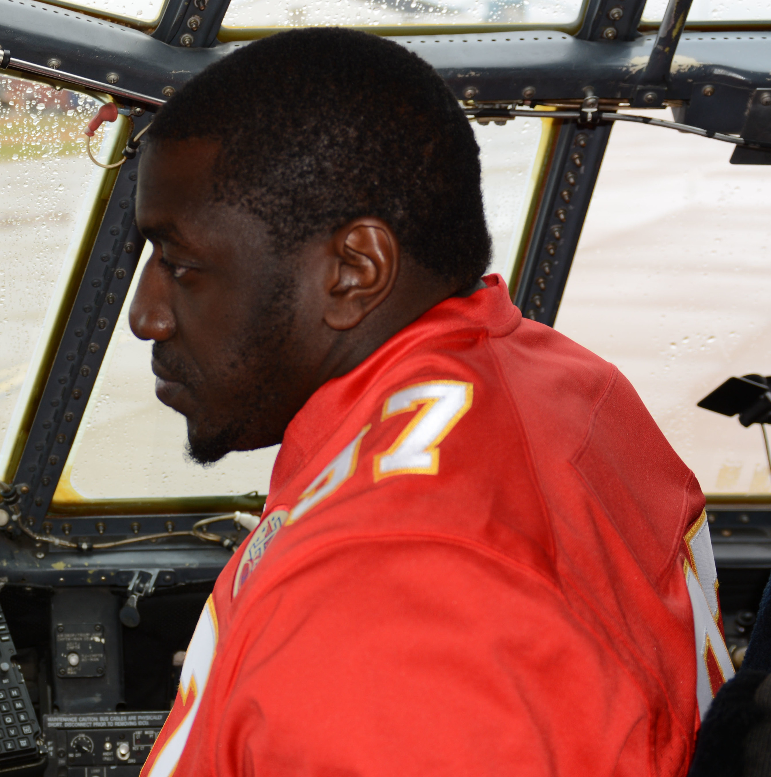 Members of the Kansas City Chiefs tour Rosecrans Air National Guard Base Oct. 27, 2015. The tour is part of the Chiefs Community Caring Team who visit local military bases to thank servicemen and women. KC Chiefs Charcandrick West, Allen Bailey, and Cairo Santos were part of the tour. (U.S. Air National Guard photo by Tech. Sgt. Michael Crane)